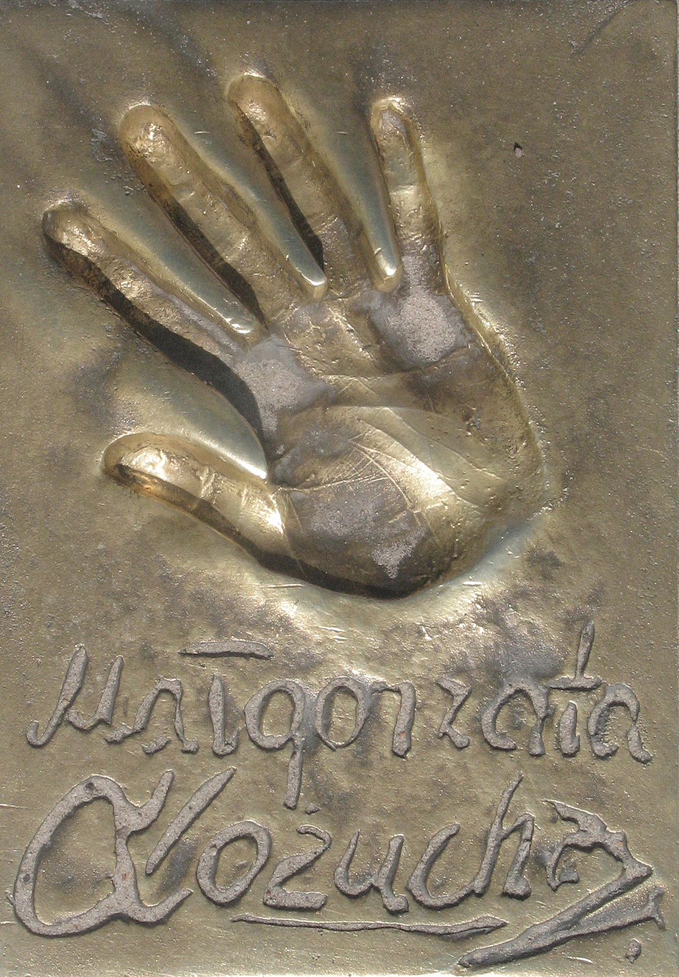 Małgorzata Kożuchowska - handprint and signature in Międzyzdroje.